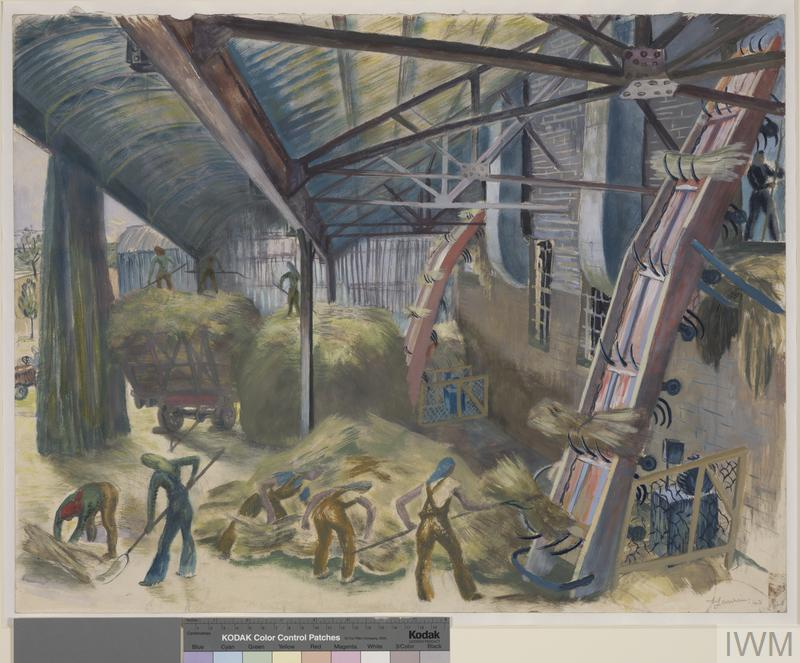 Land Army Girls working in a barn